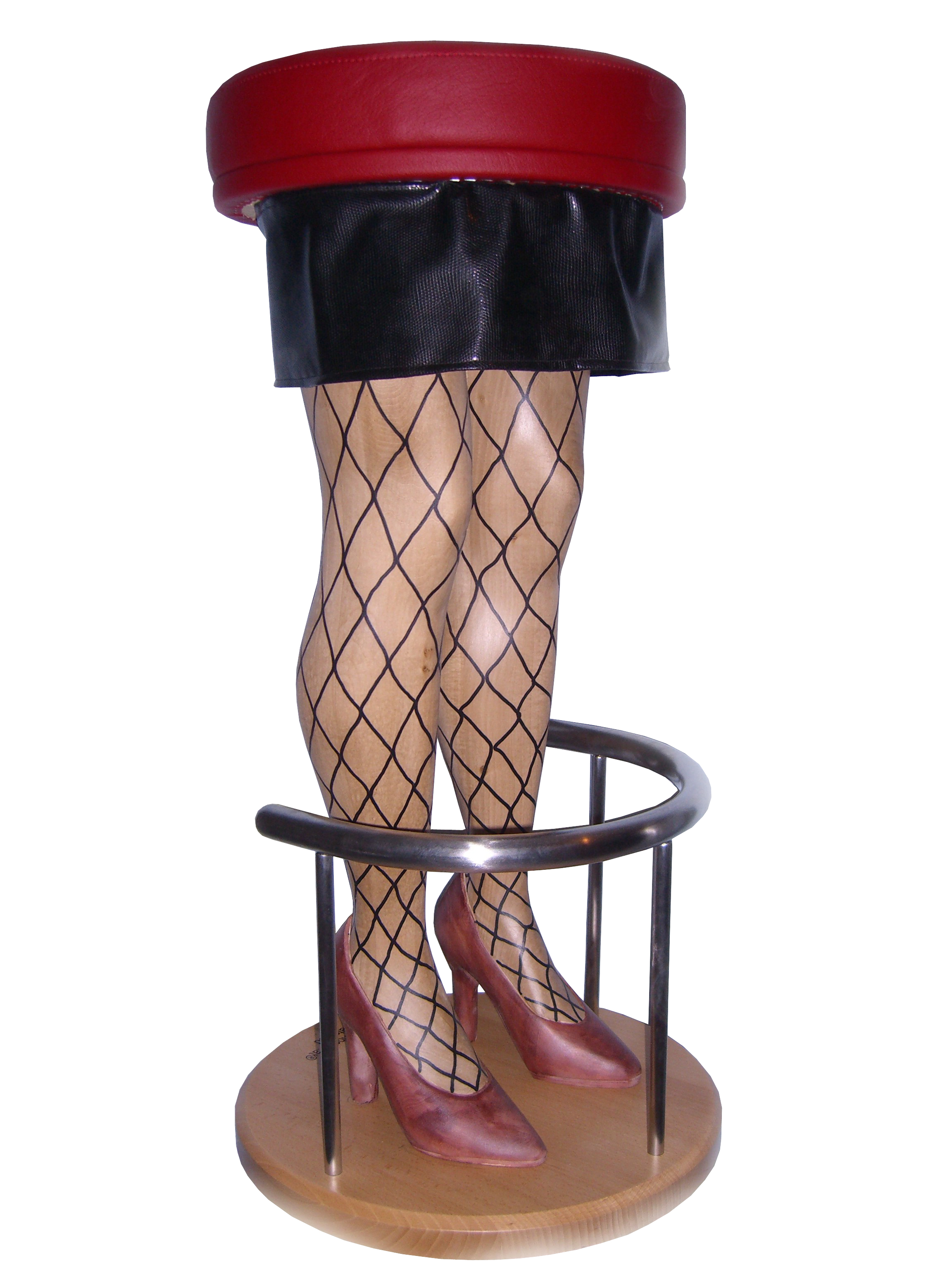 Bar stools in the shape of male and female legs made of solid wood. Each piece is painstakingly handcrafted and can either be custom-made or fashioned based on a variety of models. This handcrafting guarantees the lifelike accuracy of the model. The bar stools are produced of solid wood, using only top quality materials and are prized by customers for their neat and precise workmanship. Each customer chooses the form and design of his unique piece. The materials used and the solid wood construction result in one-of-a-kind articles which reflect the strength and durability of the materials. You can find more details and models at